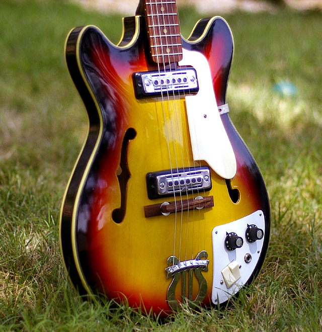 A vintage 1960's Teisco EP-7 archtop electric